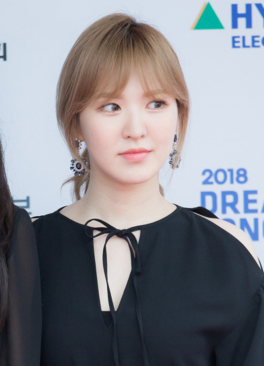 Wendy Son at Dream Concert on May 12, 2018.